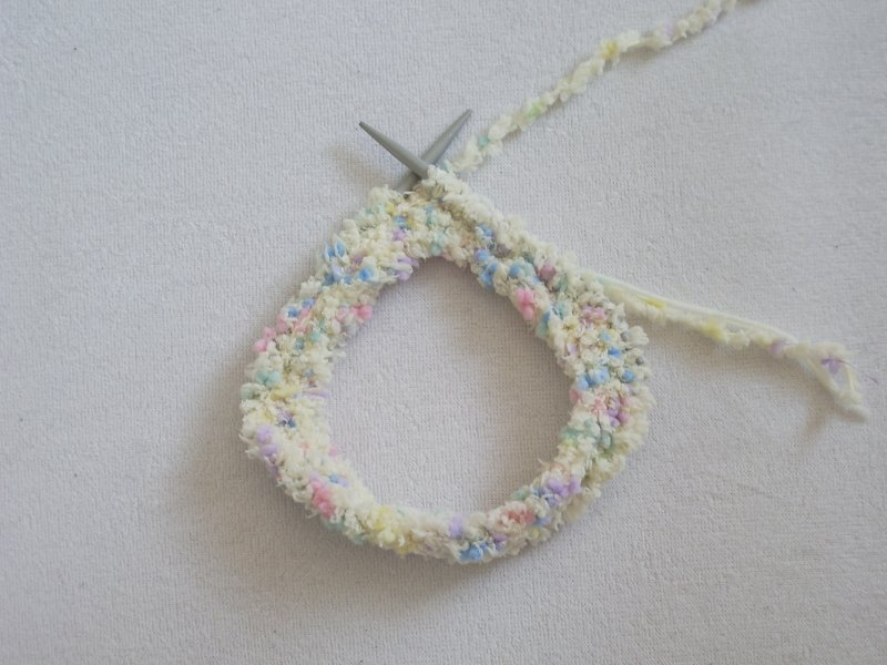 Original caption: So you keep knitting round and round. Now you can start to see the Möbius pattern - the twist is quite obvious. You're actually knitting outwards, since a Möbius band has only one side and only one edge, you're knitting that edge first one side of the cast-on row, and then the other side. It's really weird to get your head around, but trust me - it works!